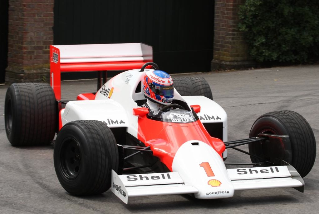 Jenson Button driving an Alain Prost's McLaren MP4/2C at goodwood